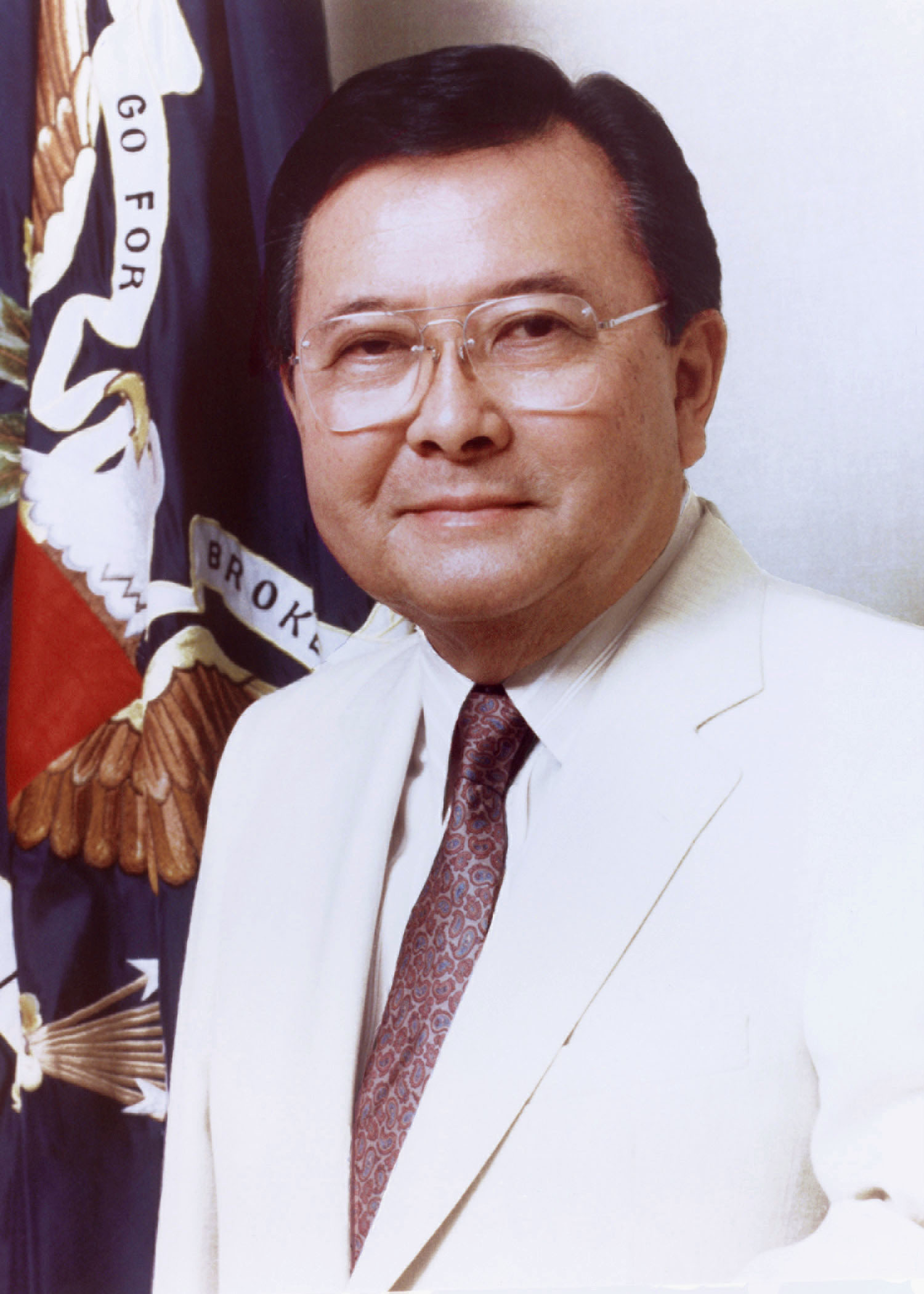 Daniel Inouye, U.S. Senator from Hawaii.